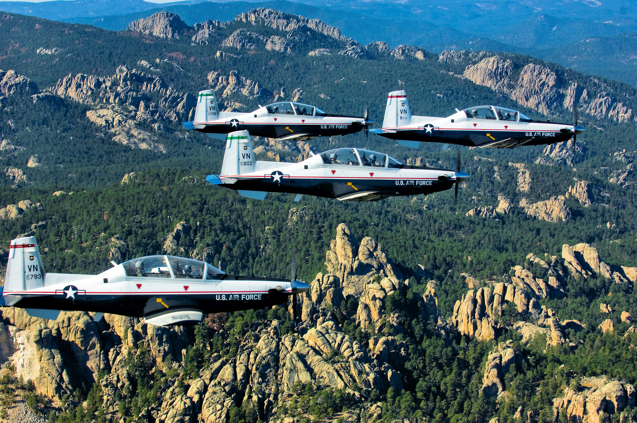 T-6A Texan II four-ship formation photo - Vance AFB